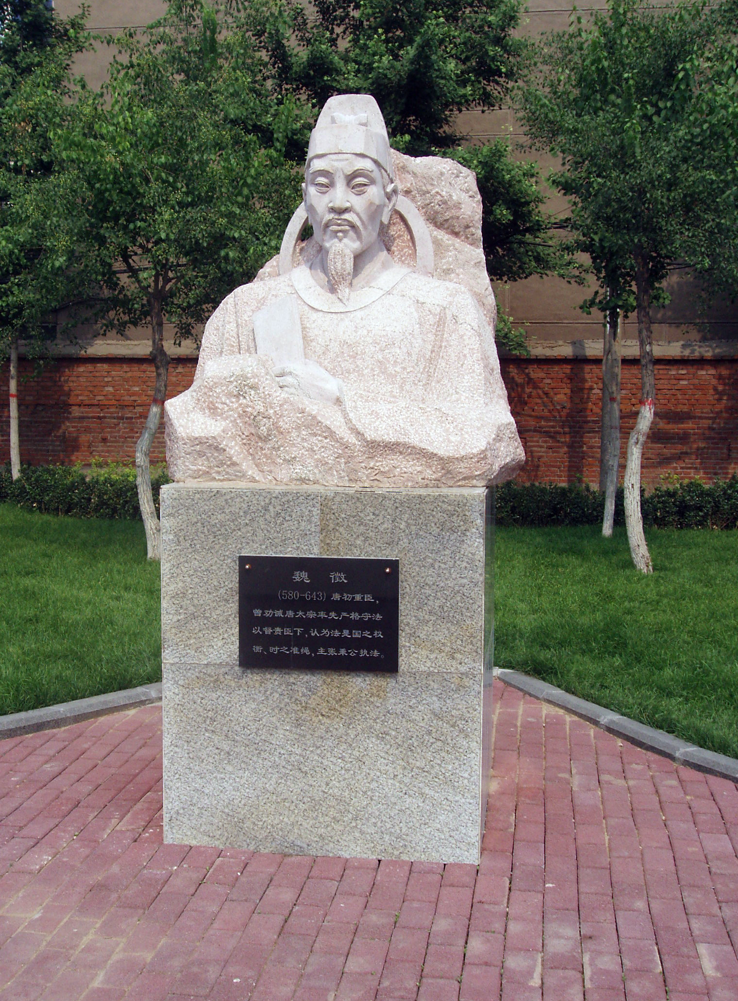 Statue of Wei Zheng, an Ancient Chinese celebrity